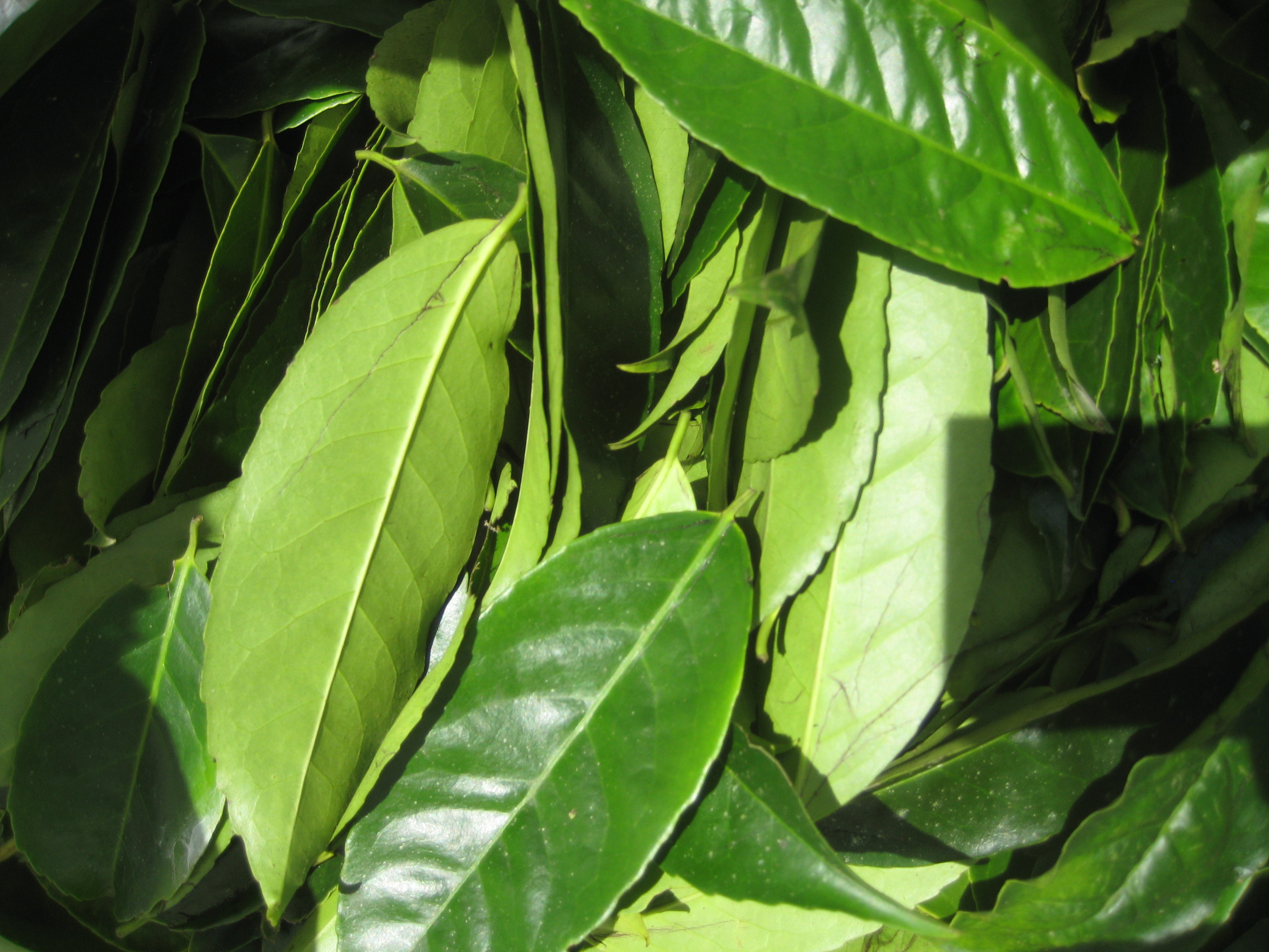 Leaves of Ilex guayusa picked from the tree. Taken near Archidona, Ecuador